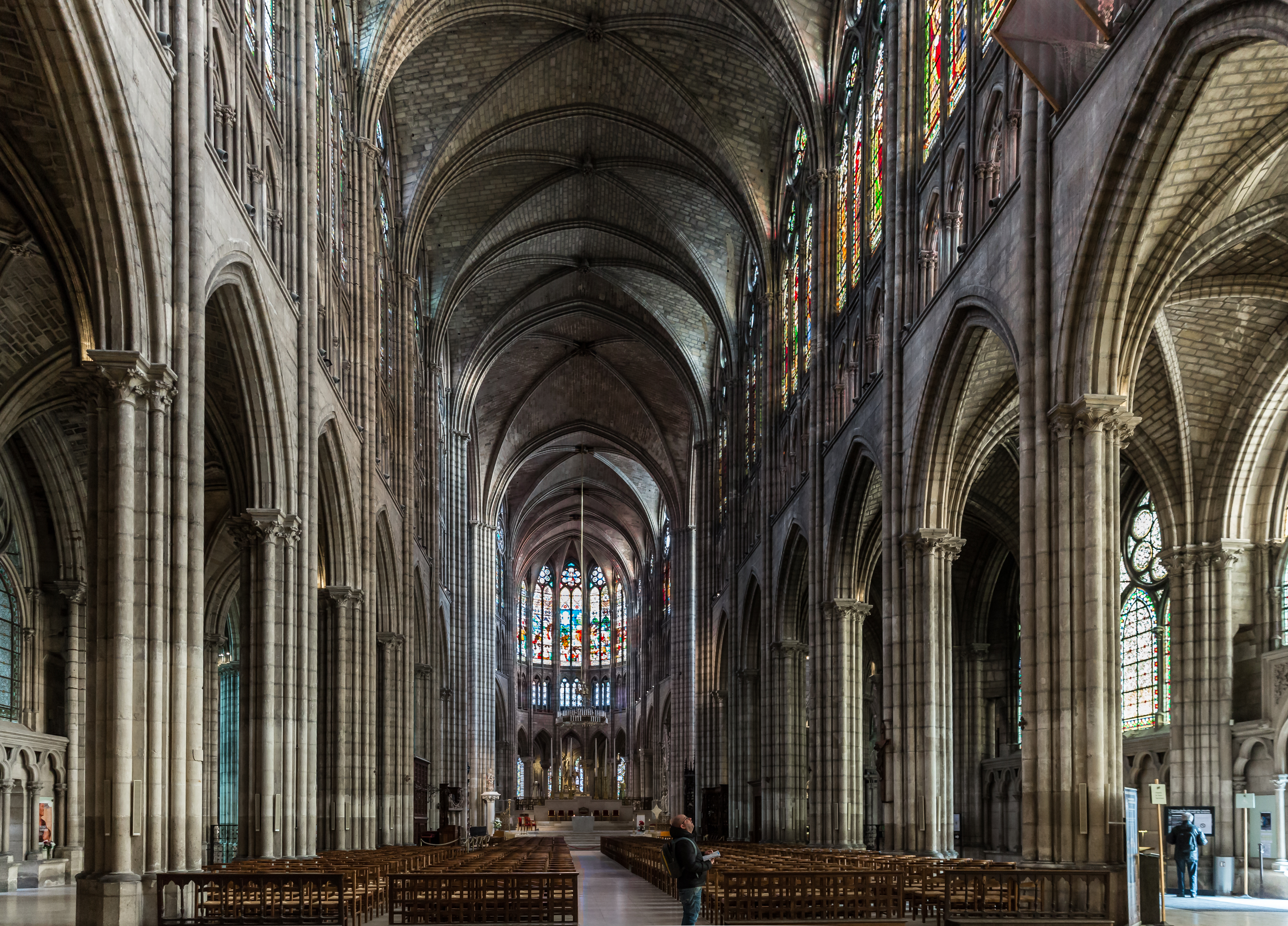 The nave of the Basilica of St. Denis